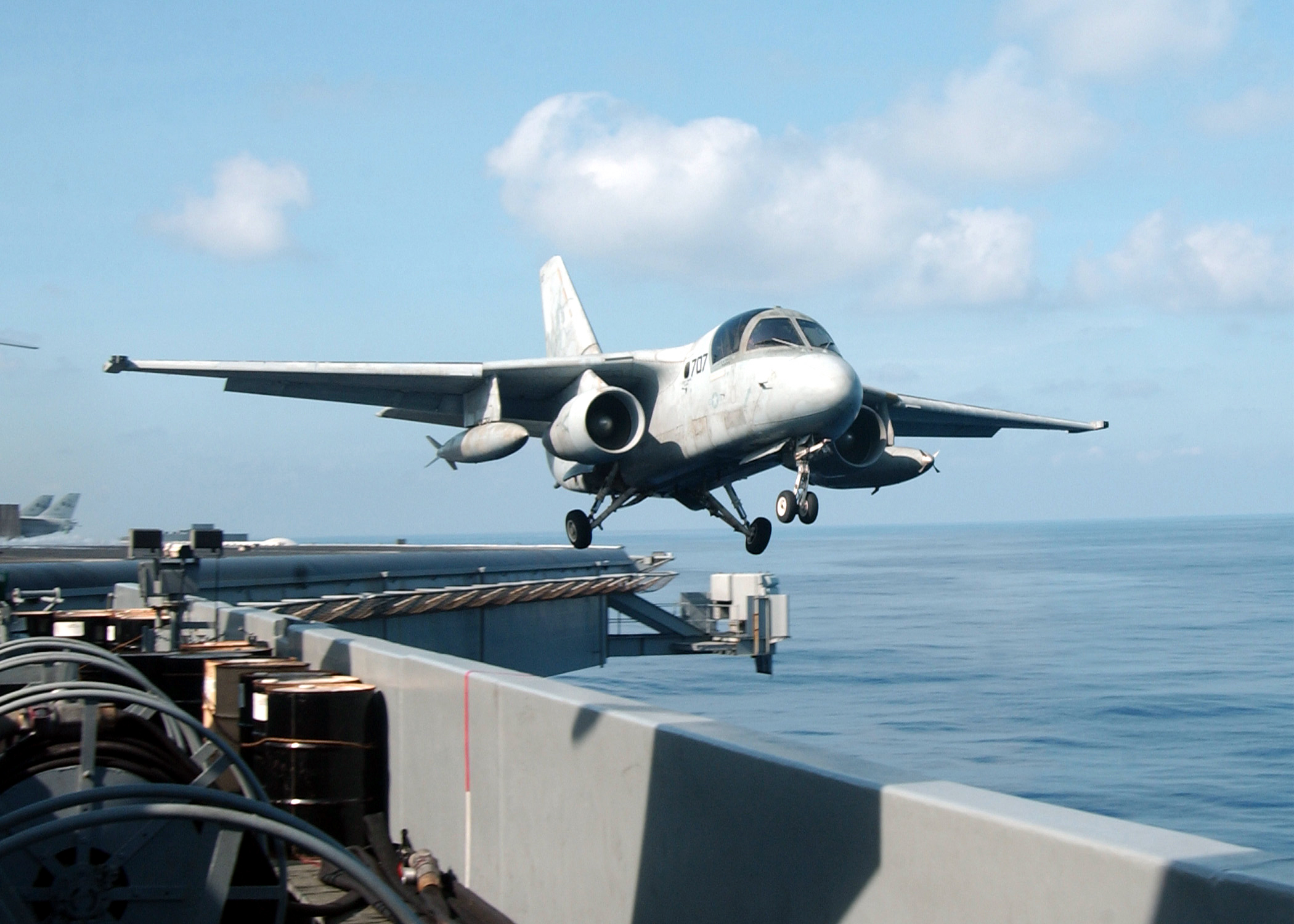 A U.S. Navy Lockheed S-3B Viking (BuNo 160576) assigned to Sea Control Squadron 35 (VS-35) "Blue Wolves" launches from catapult three during flight operations aboard the aircraft carrier USS Abraham Lincoln (CVN-72) on 28 August 2002. VS-35 was assigned to Carrier Air Wing 14 (CVW-14) aboard the Abraham Lincoln for a deployment to the Western Pacific and the Indian Ocean from 20 July 2002 to 6 May 2003.